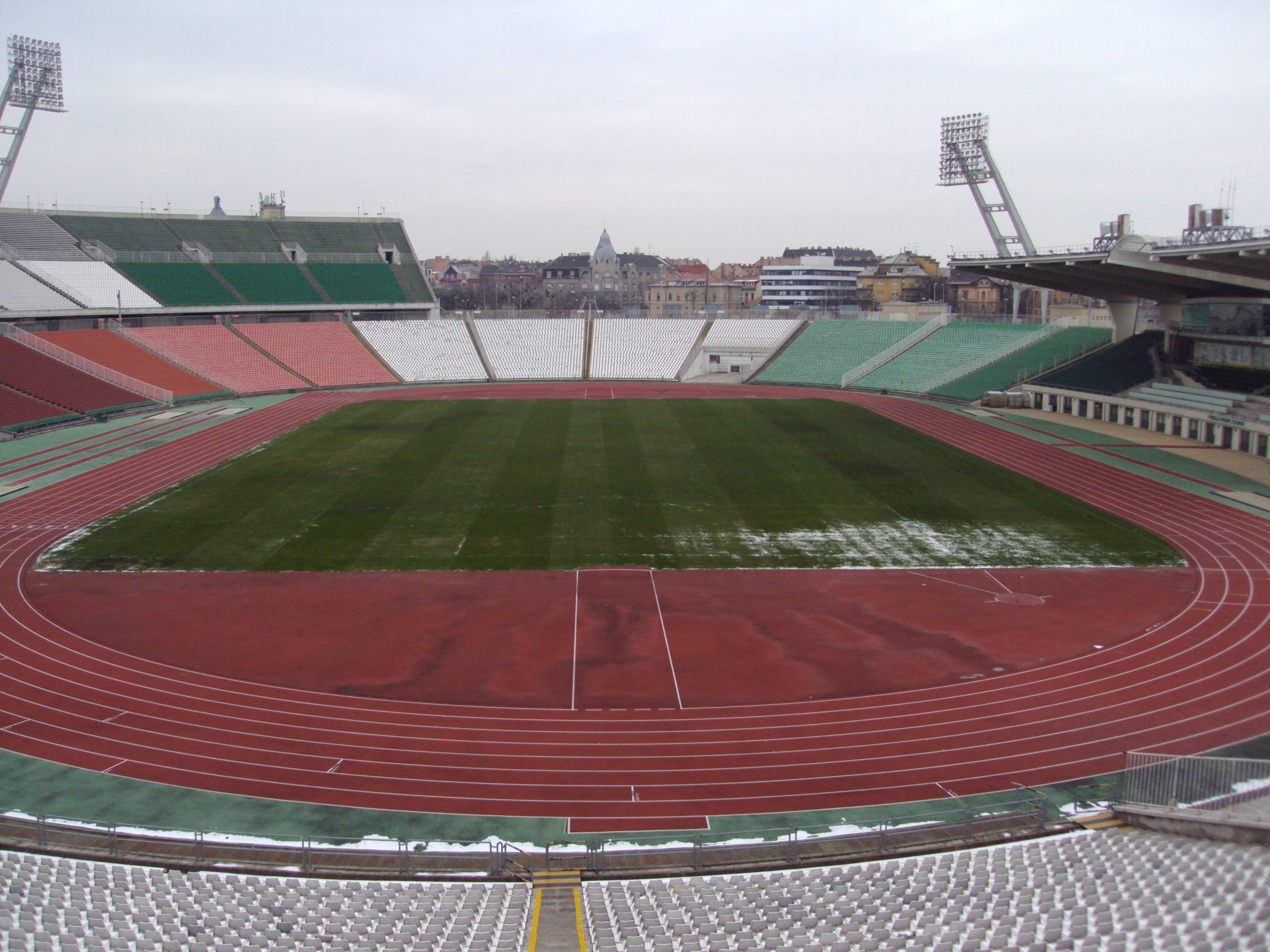 Stadium Puskás Ferenc in Budapest.